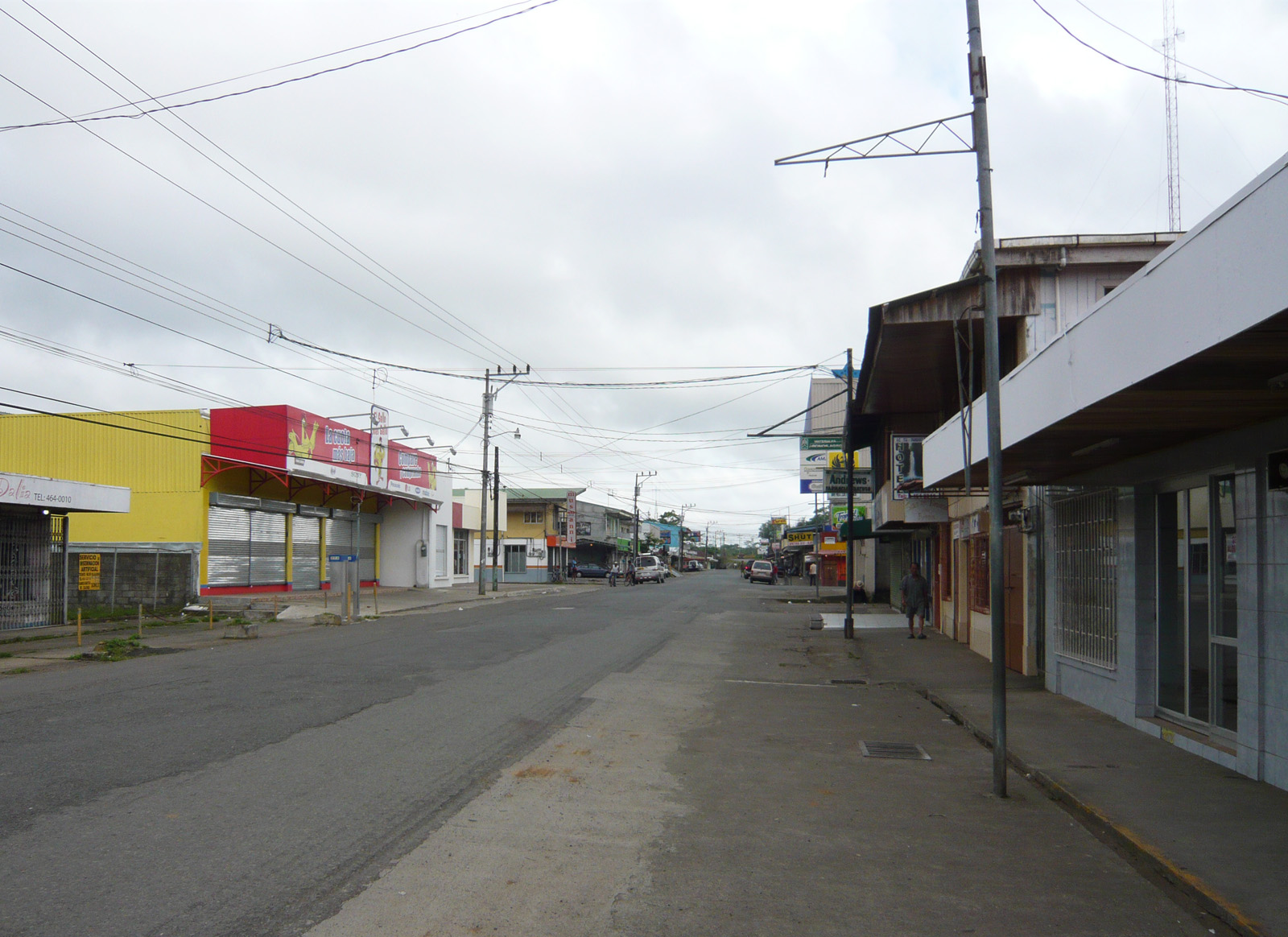 Main street in San Rafael de Guatuso, Costa Rica